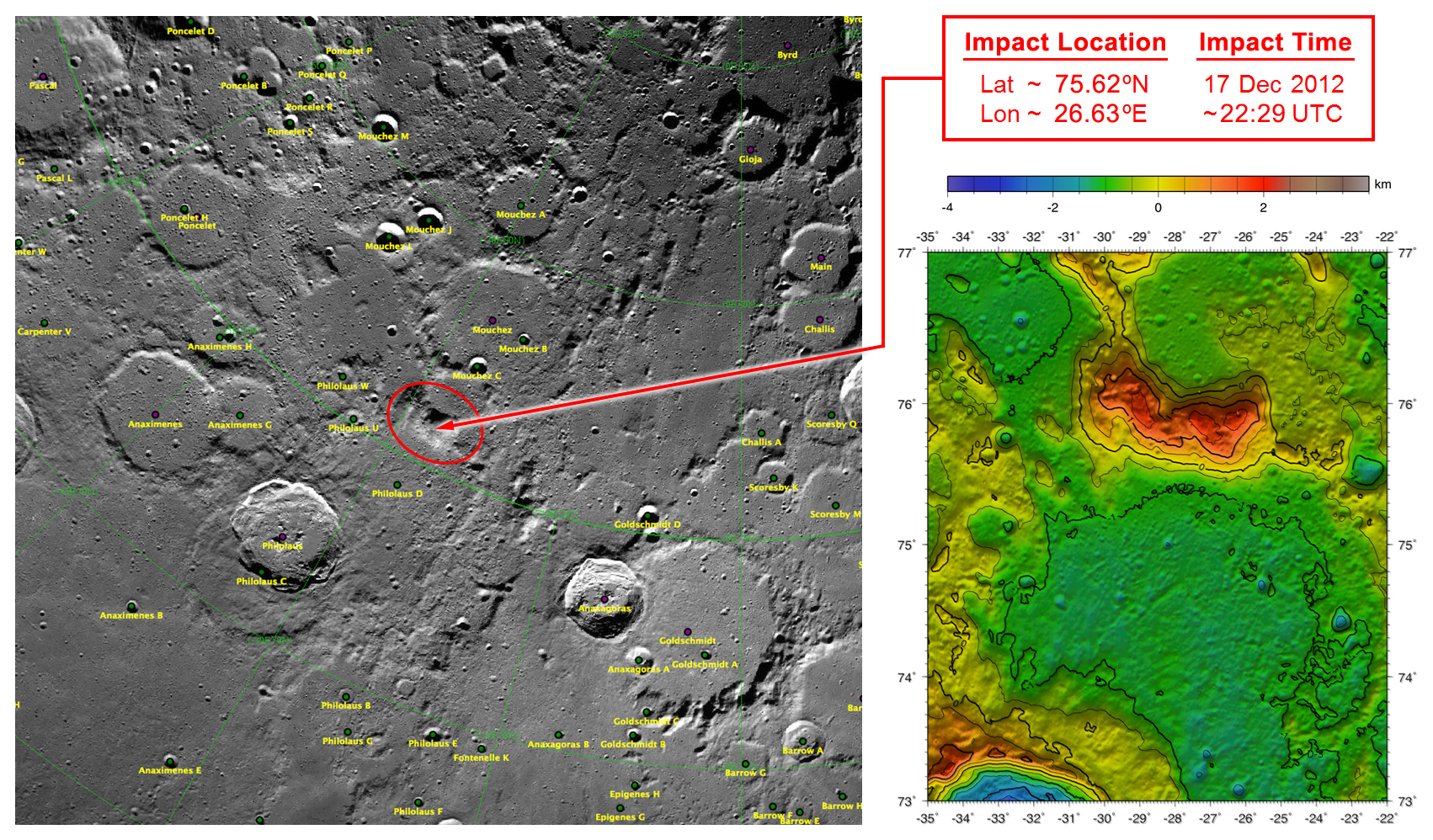 These maps of Earth's moon highlight the region where the twin spacecraft of NASA's Gravity Recovery and Interior Laboratory (GRAIL) mission will impact on Dec. 17, marking the end of its successful endeavor to map the moon's gravity. The two washing-machine-sized spacecraft, named Ebb and Flow, will impact at an unnamed mountain near the moon's North Pole. These maps are from NASA's Lunar Reconnaissance Orbiter.